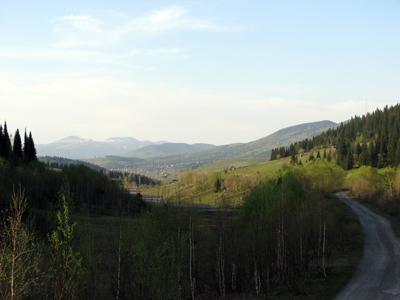 Tashgol mountain